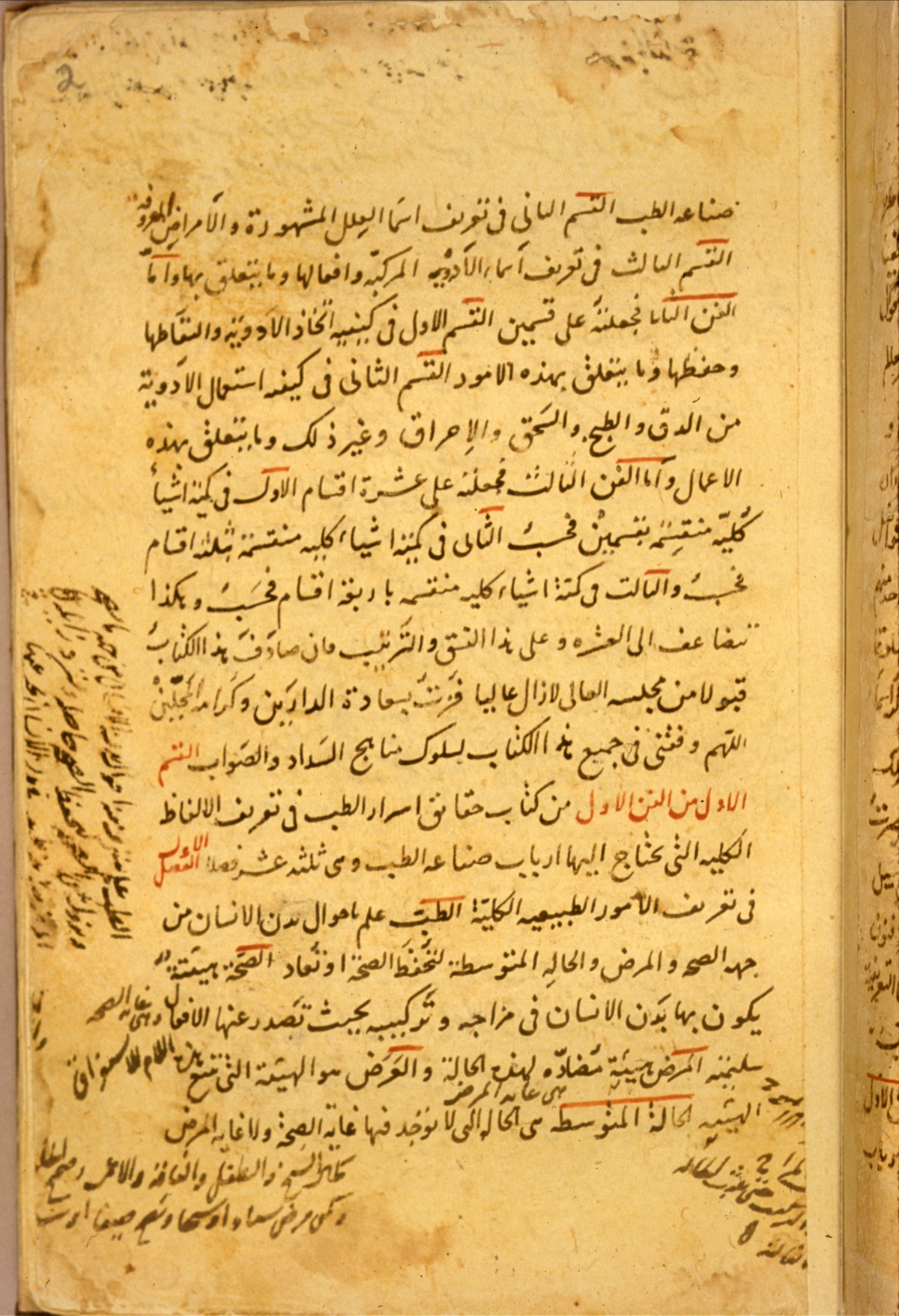 Ḥaqā’iq asrār al-ṭibb (The Truths of the Secrets of Medicine) by Mas‘ūd ibn Muḥammad al-Sijzī (fl. before 1334/734 H).